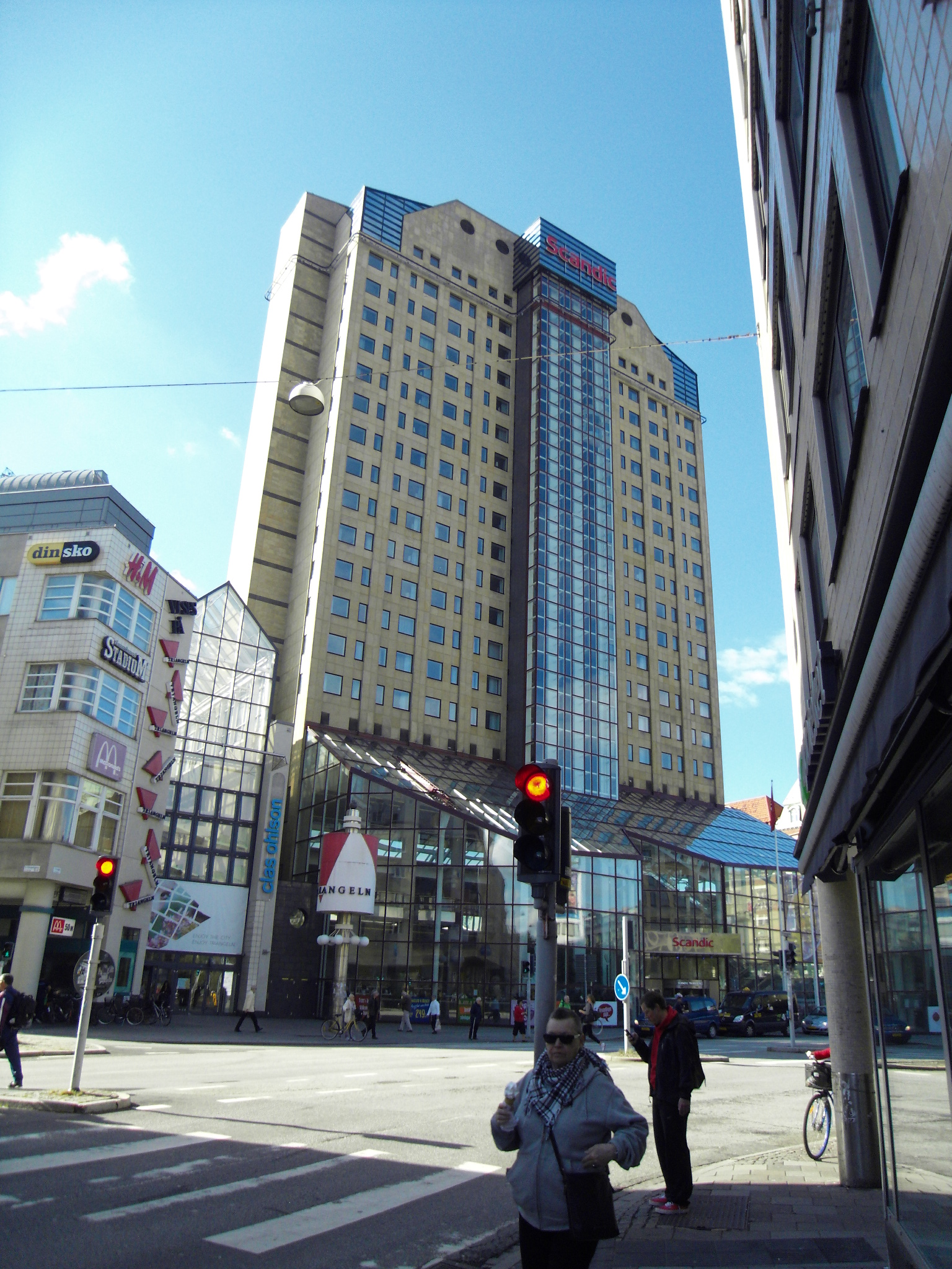 Hotell Triangeln, a hotel located in the area Triangeln in the city of Malmo. The picture is taken 19 September 2013.